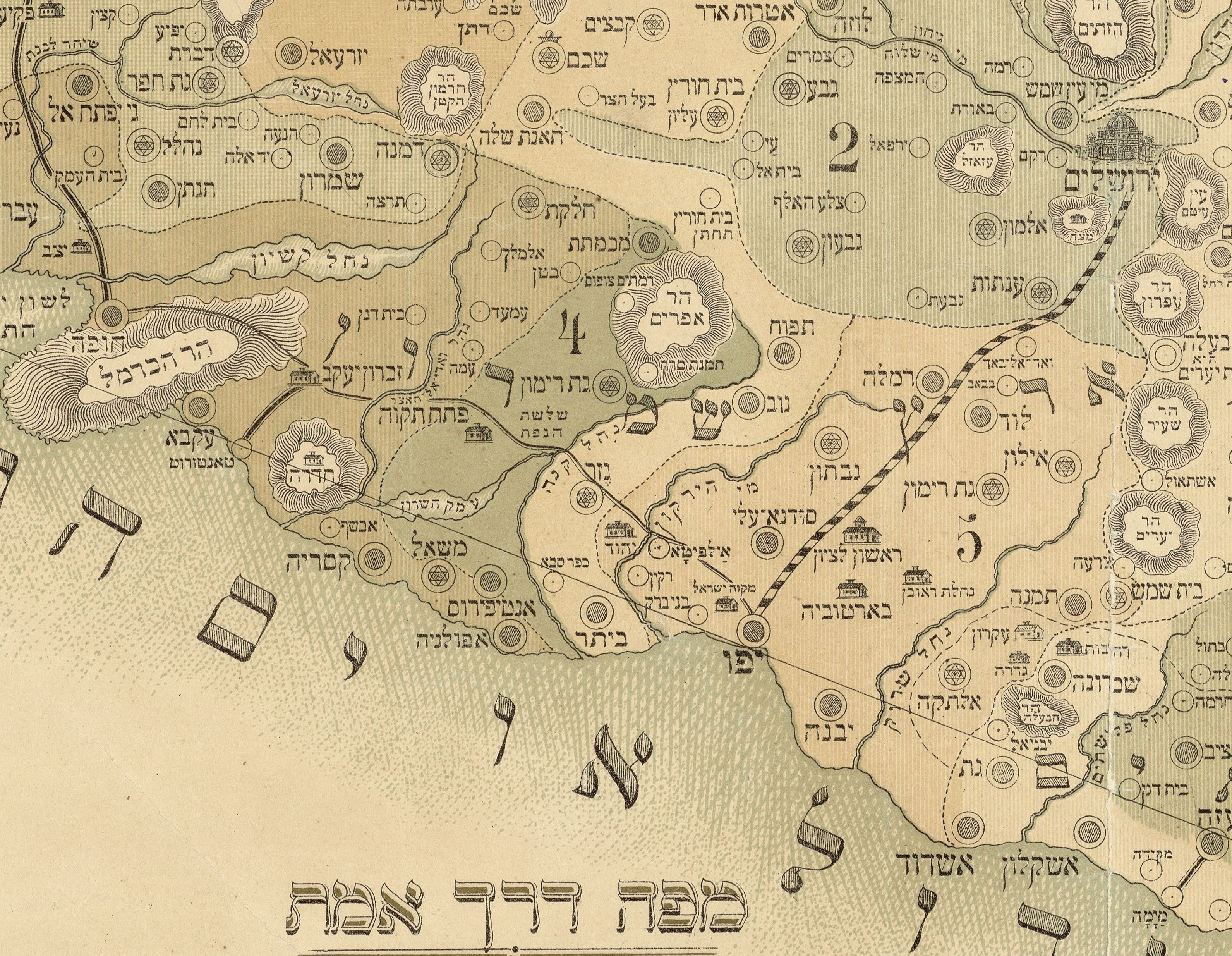 Derech Emeth Map (Malkov Map), 1894